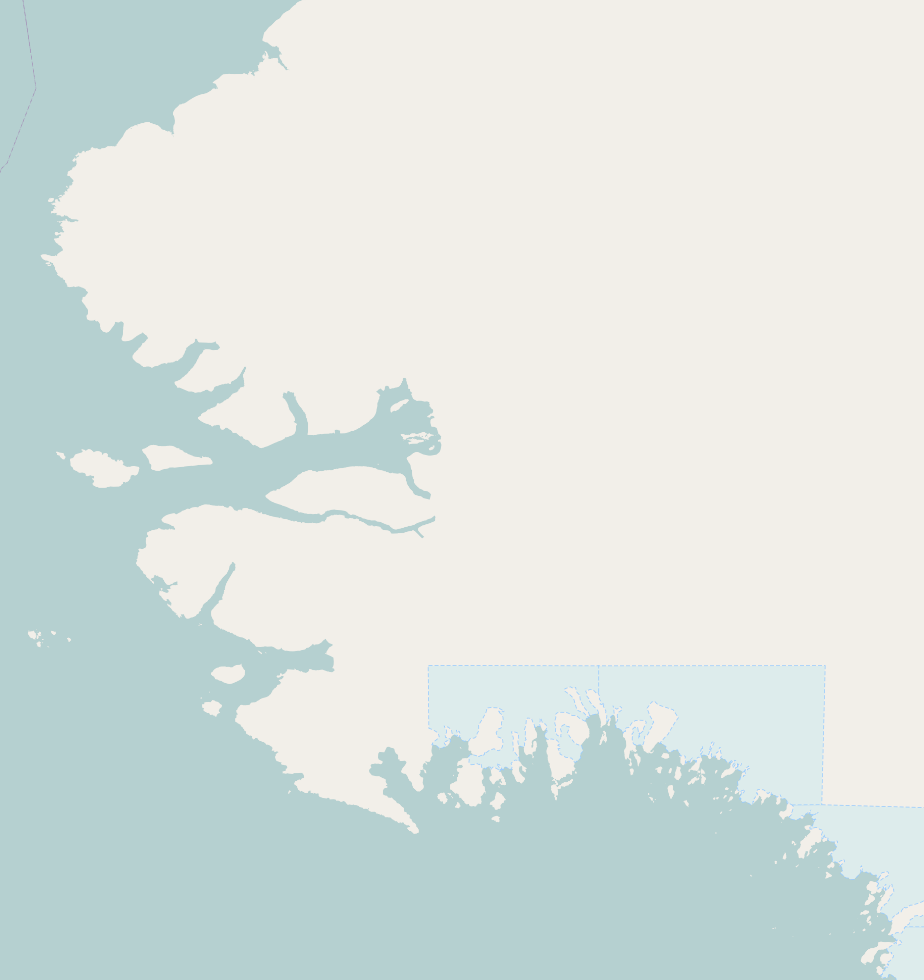 Map of Thule area, Greenland Geographic limits of the map: N: 79.05° S: 75.27° W: -73.74° E: -57.57°